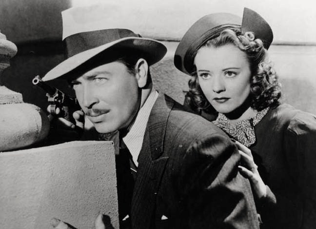 John Howard and Heather Angel in Bulldog Drummond's Bride - cropped screenshot